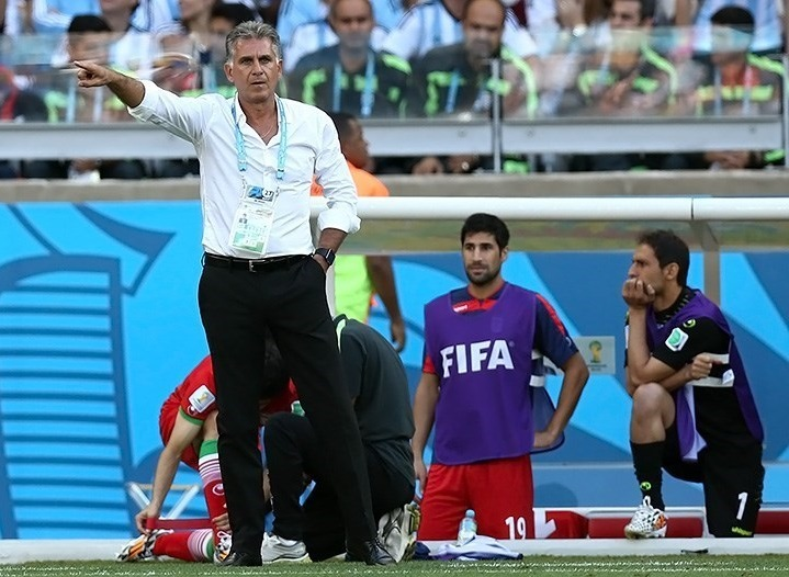 Iran and Argentina national football teams match, 2014 FIFA World Cup Group F